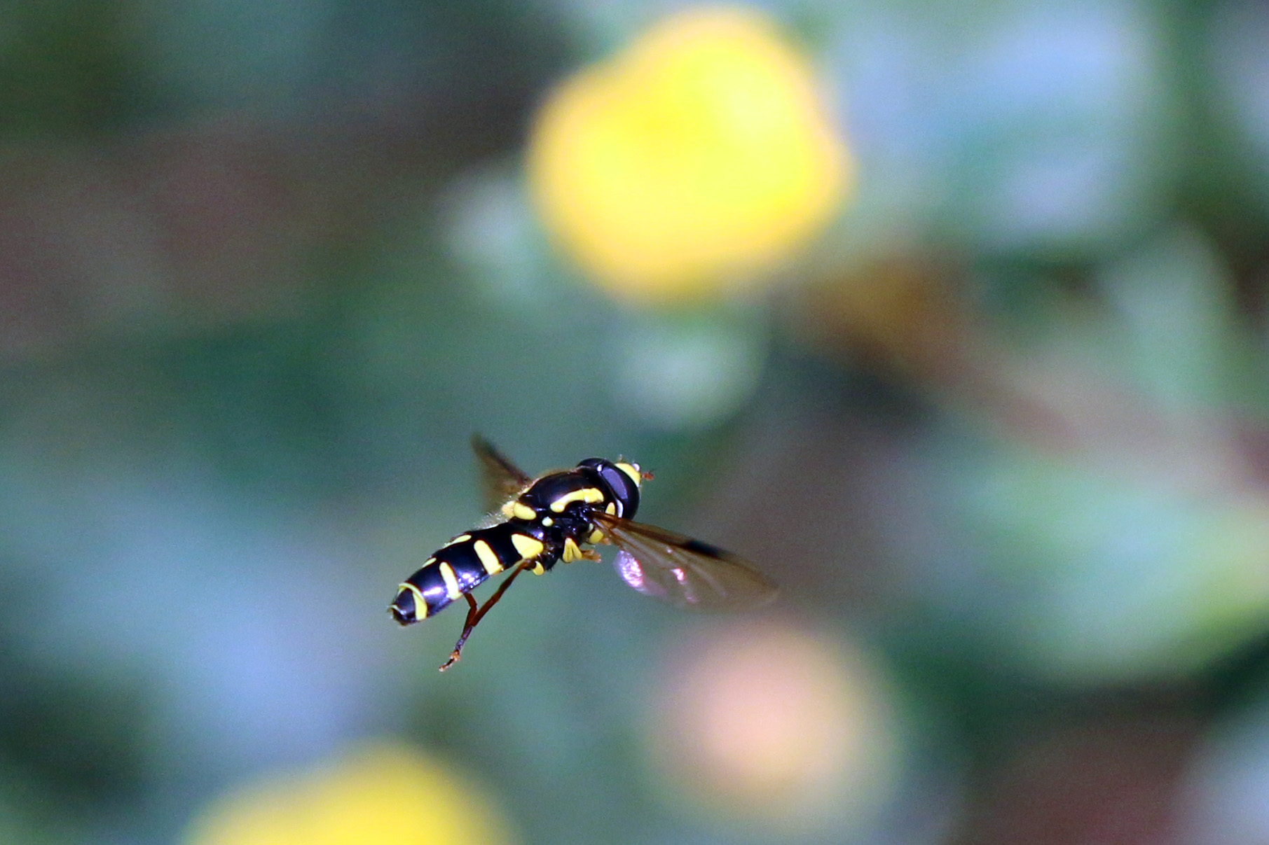 Hoverfly (Xanthogramma pedissequum), Cumnor Hill, Oxford